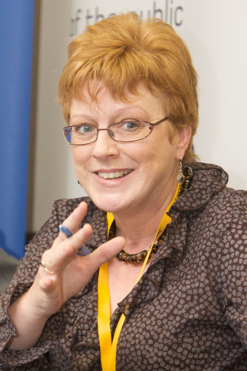 Sandra Gidley, British politician and Liberal Democrat health spokesperson, during the Health Hotel session "Patient safety: an election priority?" at the Bournemouth International Centre during the Liberal Democrat Party Conference 2009.